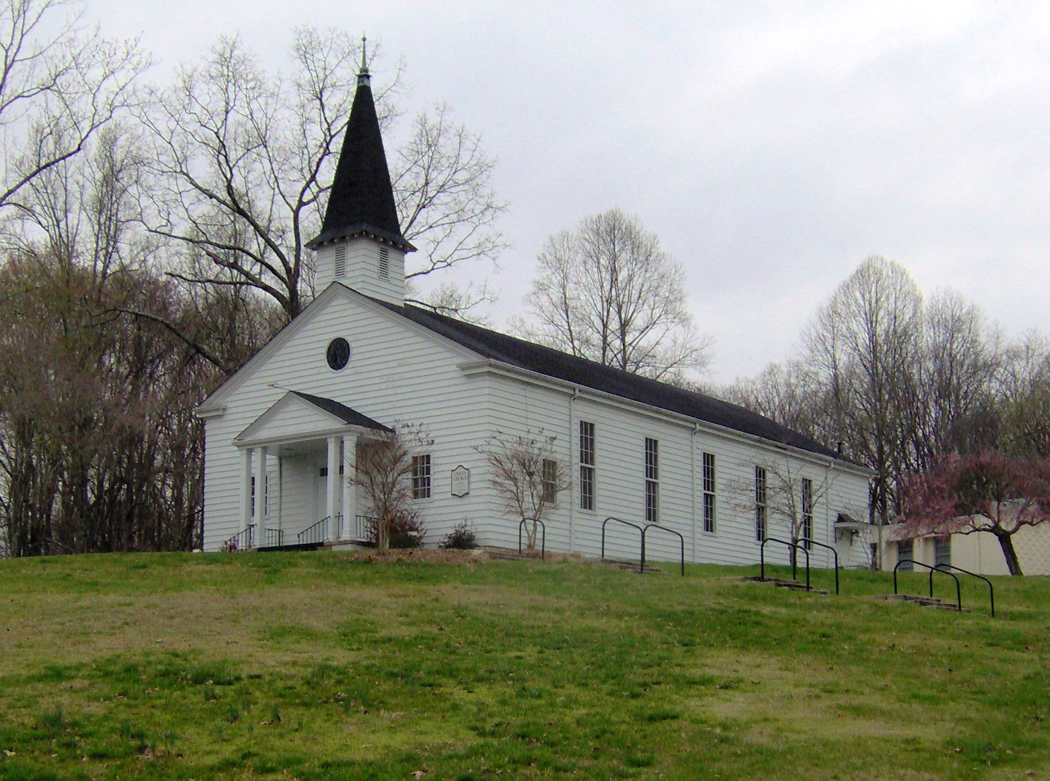 The United Church, commonly called the Chapel-on-the-Hill, in Oak Ridge, Tennessee, in the southeastern United States.